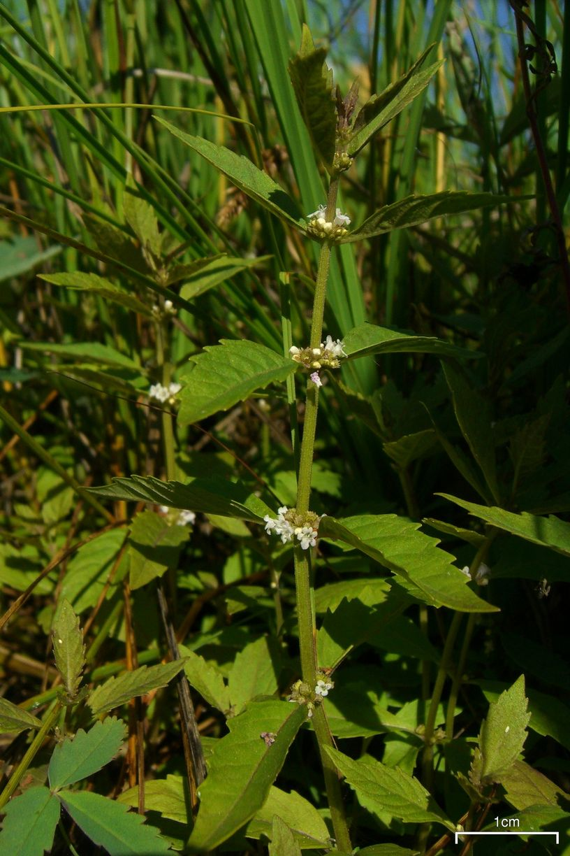 Lycopus americanus W. C. Barton 20090719.1 Edgewood Blue, Wells Gray Park, BC